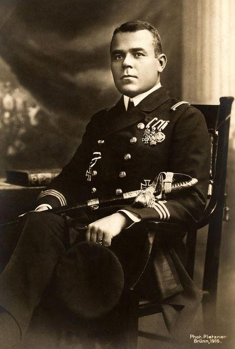 Rudolf Singule, Austro-Hungarian naval officer